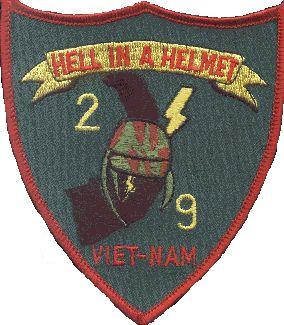 Emblem of the 3rd Marine Division